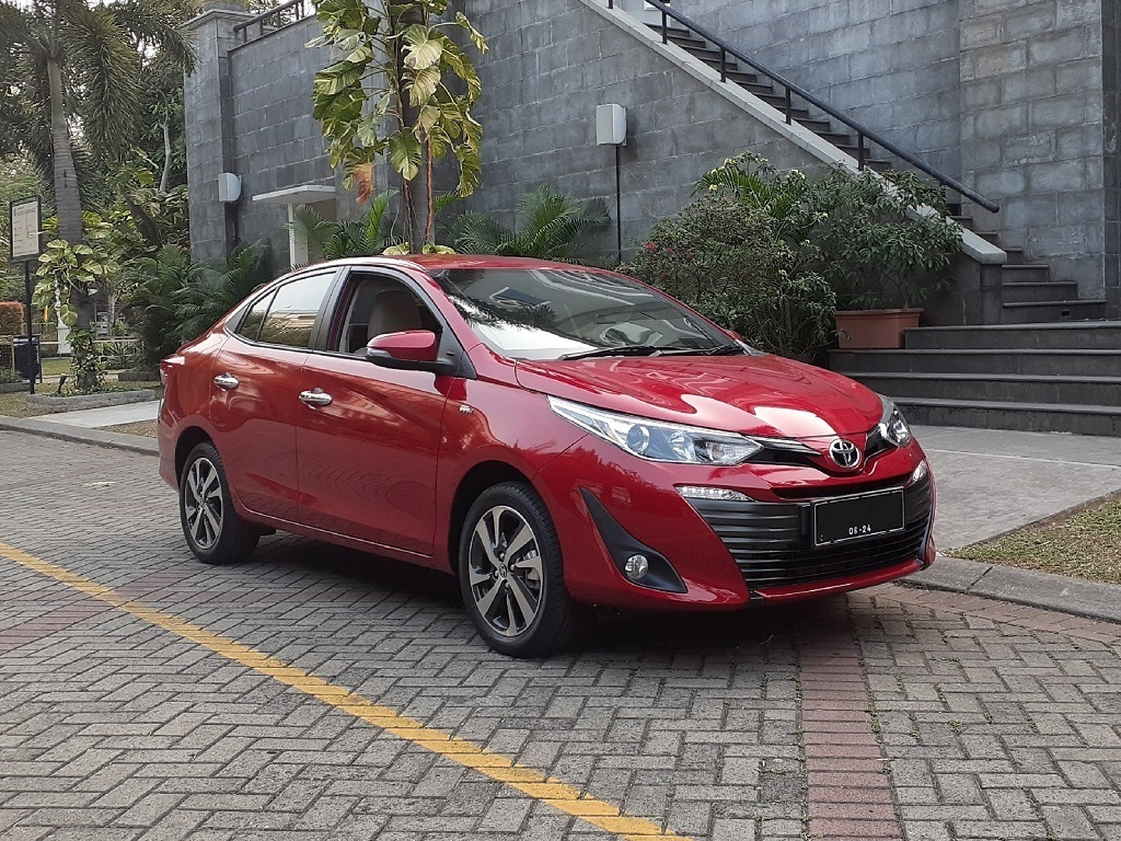 2019 Toyota Vios G (NSP151R-CEMGKD) shown in Red Mica Metallic.